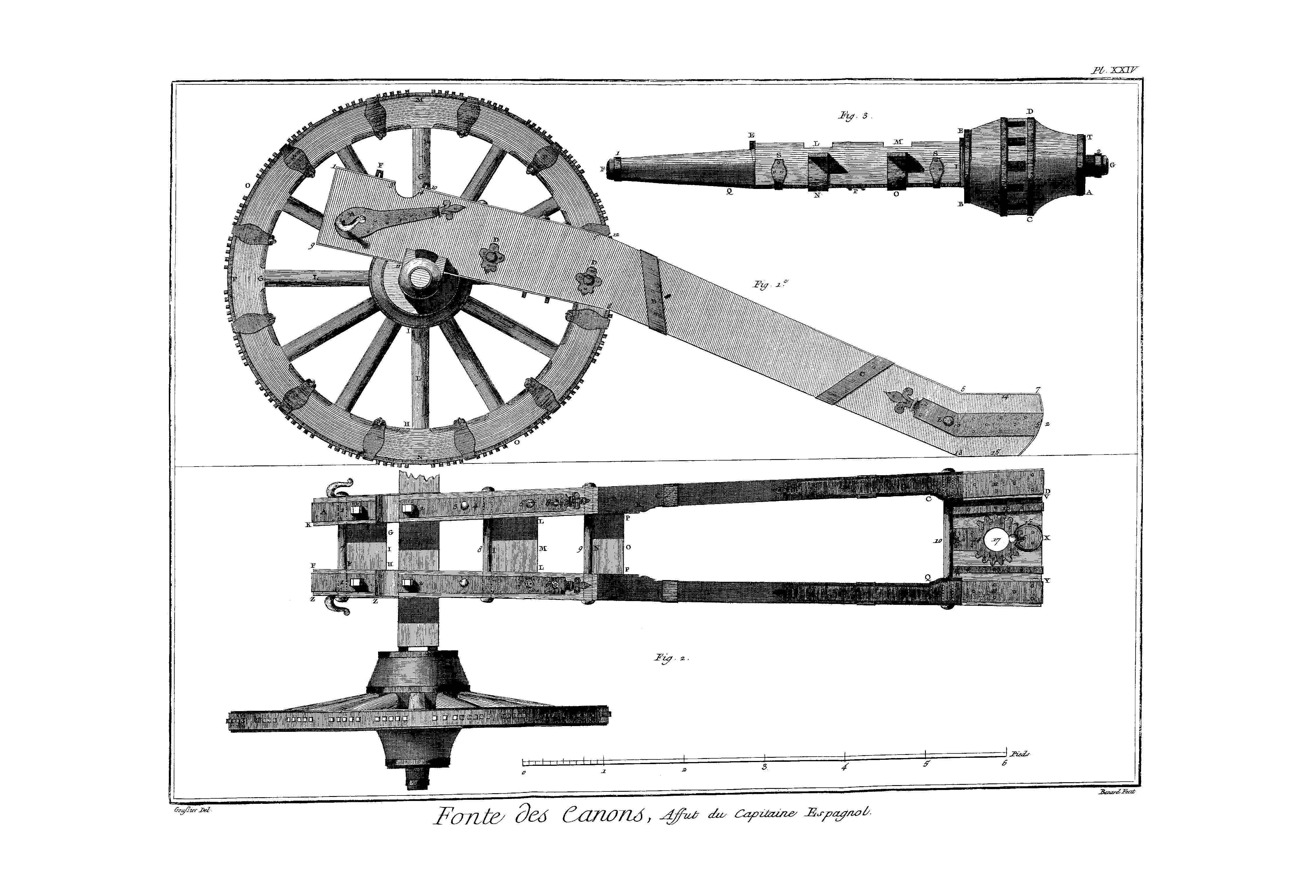 Planches de l'Encyclopédie de Diderot et d'Alembert, volume 4, Fontes des canons, Pl. 24.